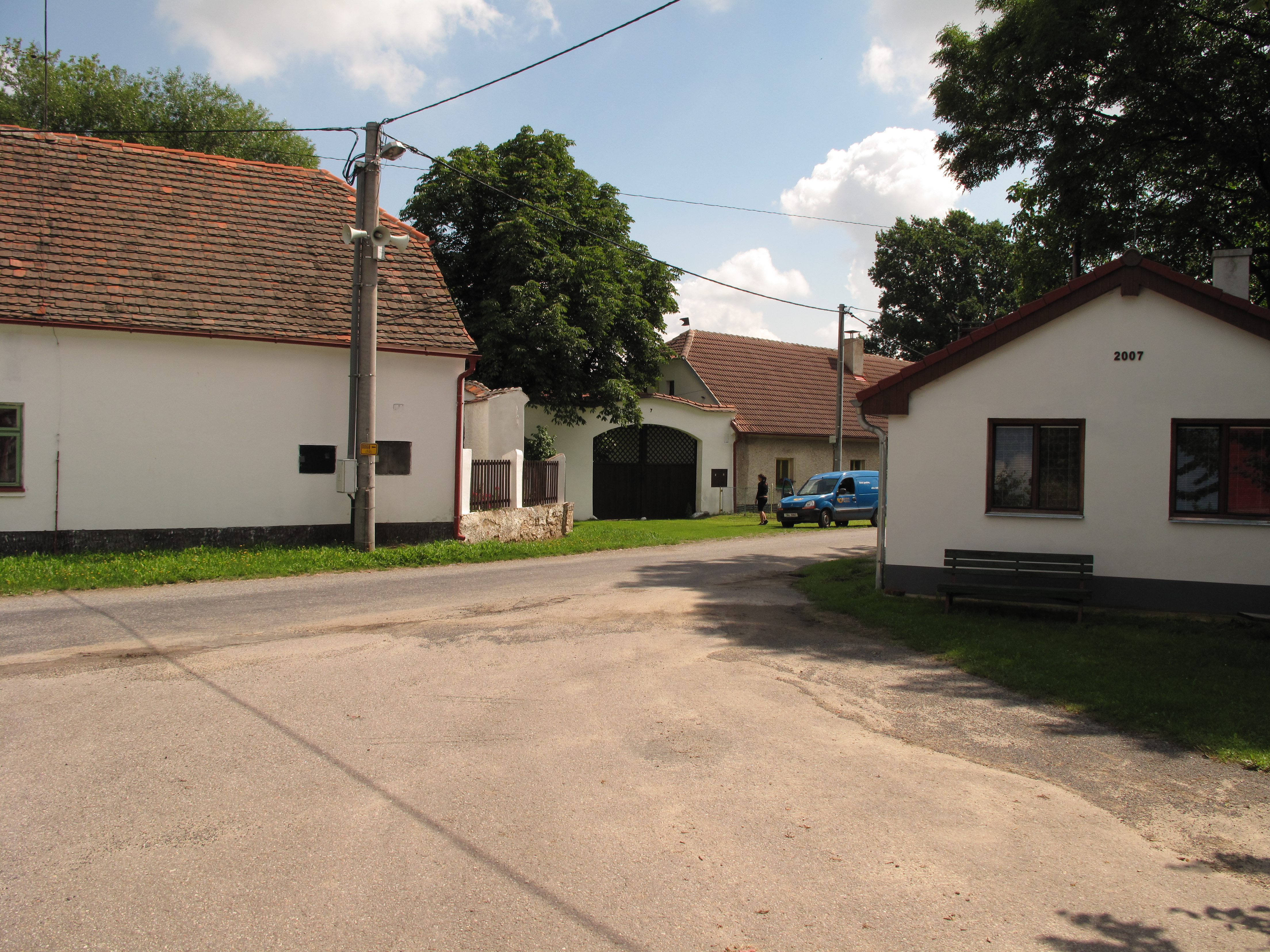 This photograph was taken within the scope of the second year of the 'Czech Municipalities Photographs' grant.